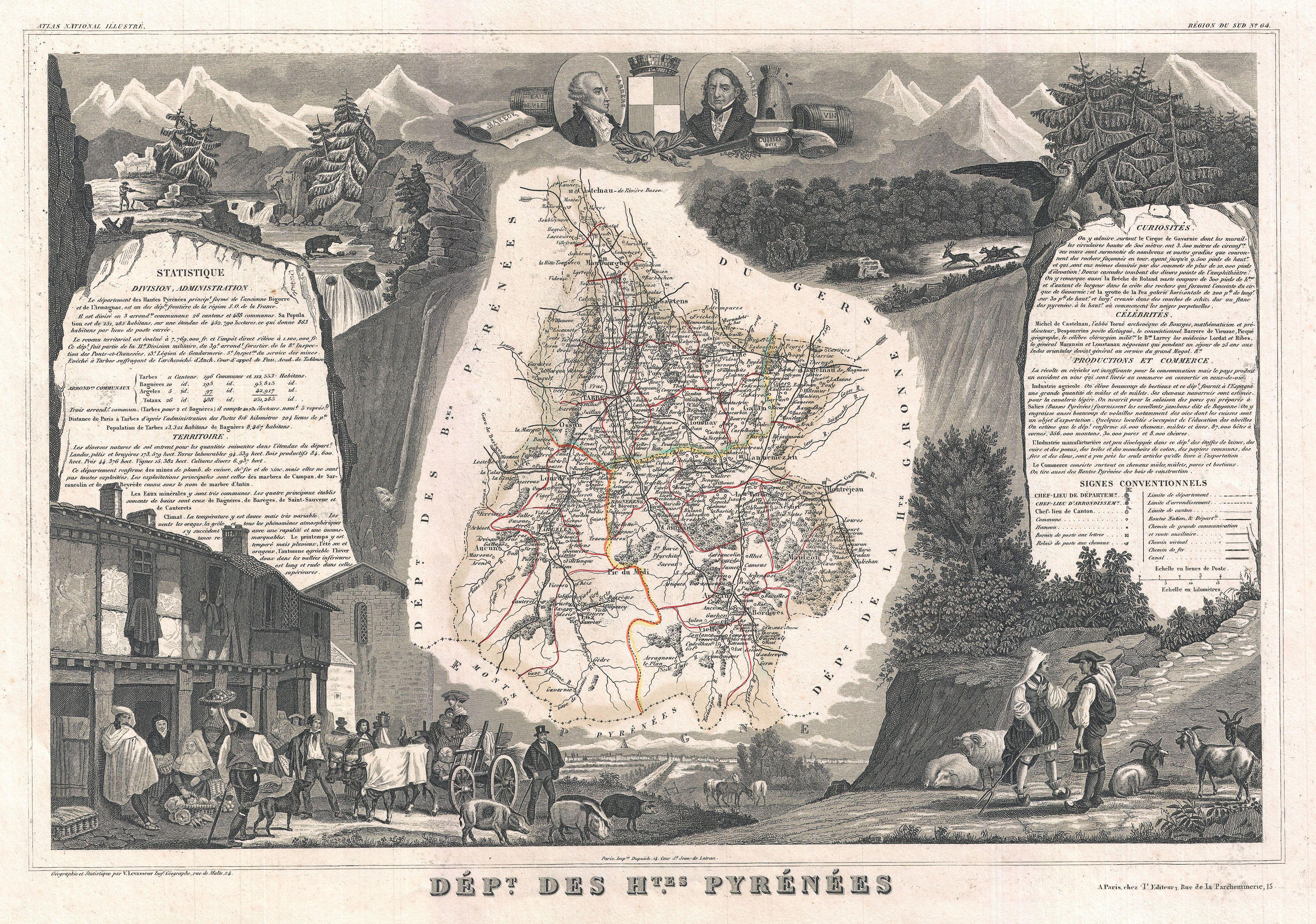 This is a fascinating 1852 map of the French department of Hautes Pyrenees, France. This area is home to the wine producing region, Madiran. Madrian is best known for producing a powerful red wine made from the Tannat grape. This area also makes a number of cheeses, including Tomme Noire des Pyrenees and Roquefort cheese. The map proper is surrounded by elaborate decorative engravings designed to illustrate both the natural beauty and trade richness of the land. There is a short textual history of the regions depicted on both the left and right sides of the map. Published by V. Levasseur in the 1852 edition of his Atlas National de la France Illustree.